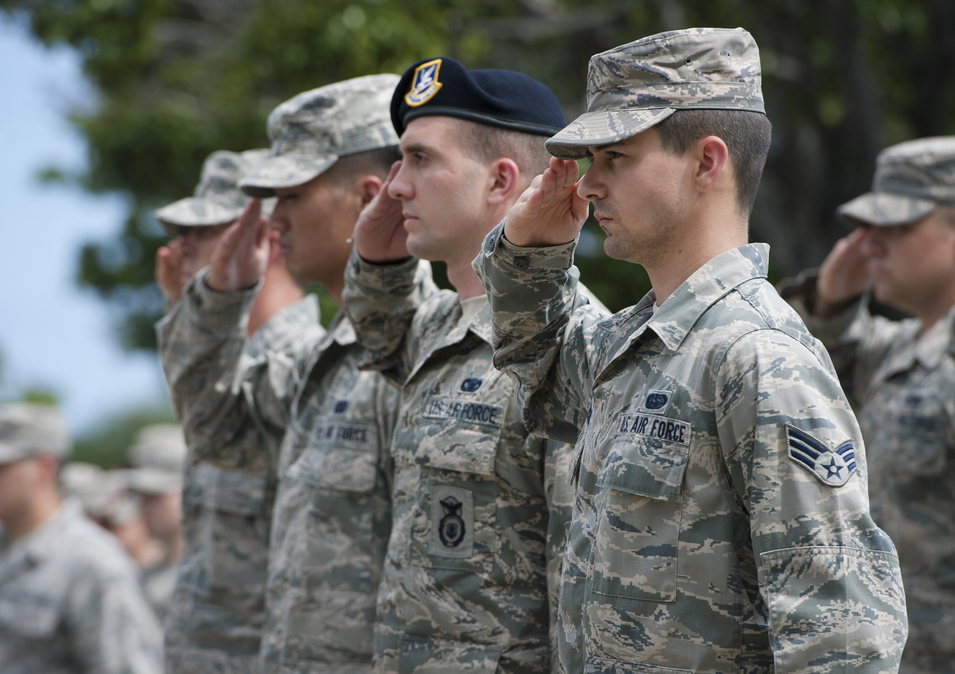 (From right to left) U.S. Air Force Senior Airman Killian Tolleson, 792nd Intelligence Support Squadron cyber transport, Senior Airman Jason Brown, 647th Security Forces Squadron security forces member, and Senior Airman Dennis Vo, 324th Intelligence Squadron cryptologic language analyst, salute during a remembrance ceremony honoring the life and service of ninth Chief Master Sgt. of the Air Force James Binnicker, at the Binnicker Professional Military Education (PME) Center, March 31, 2015, at Joint Base Pearl Harbor-Hickam, Hawaii. Binnicker helped lead the implementation of the Enlisted Performance Report (EPR) and worked toward getting more master sergeants admitted into the Senior NCO Academy during his tenure as chief master sergeant of the Air Force from 1986-1990. (U.S. Air Force photo by Staff Sgt. Christopher Hubenthal)